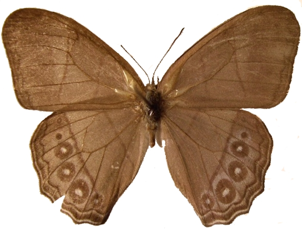 Dorsal wings of specimen of butterfly Archeuptychia cluena